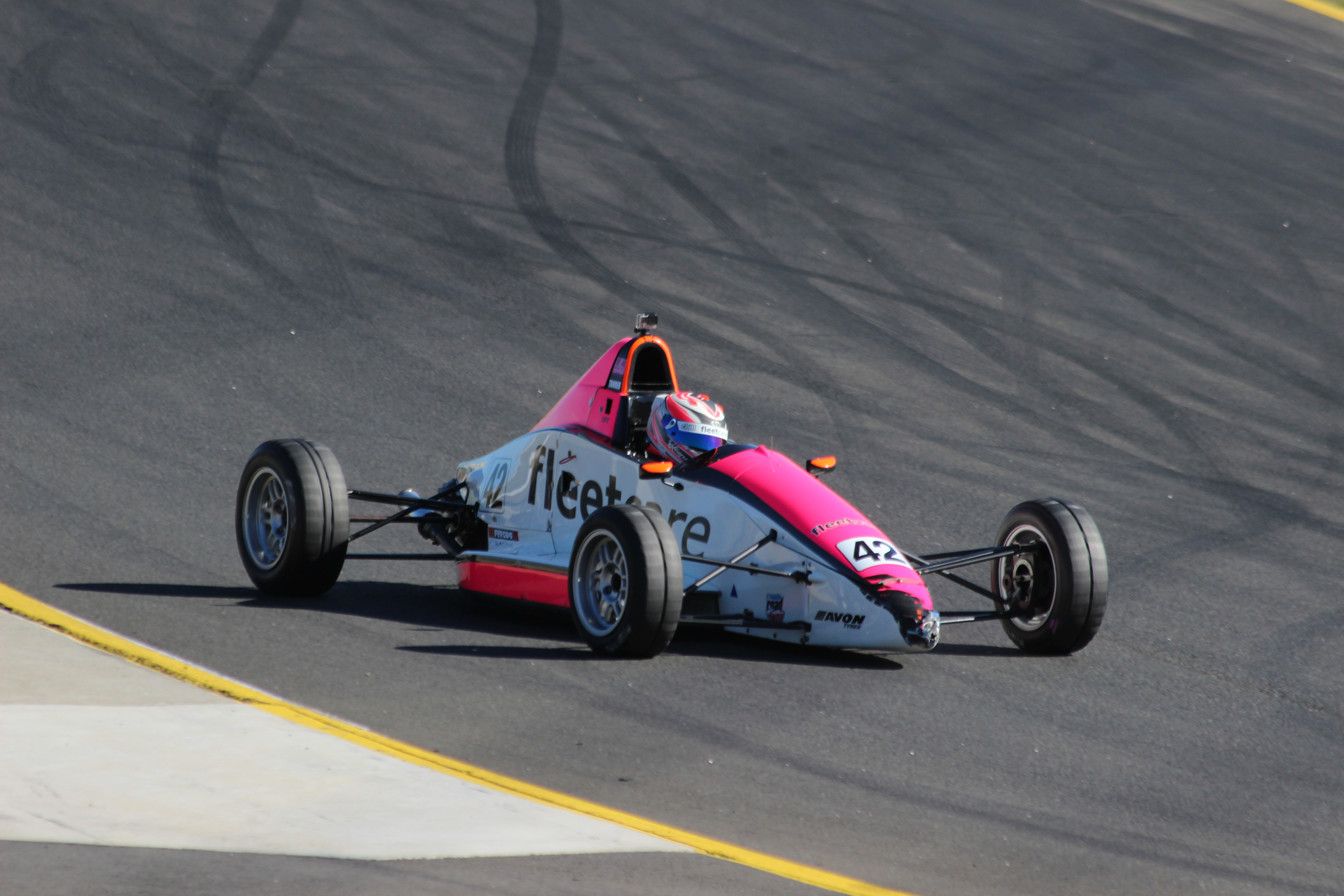 Leanne Tander (Mygale SJ10a) taking part in a 2015 Australian Formula Ford Series race at Sydney Motorsport Park.